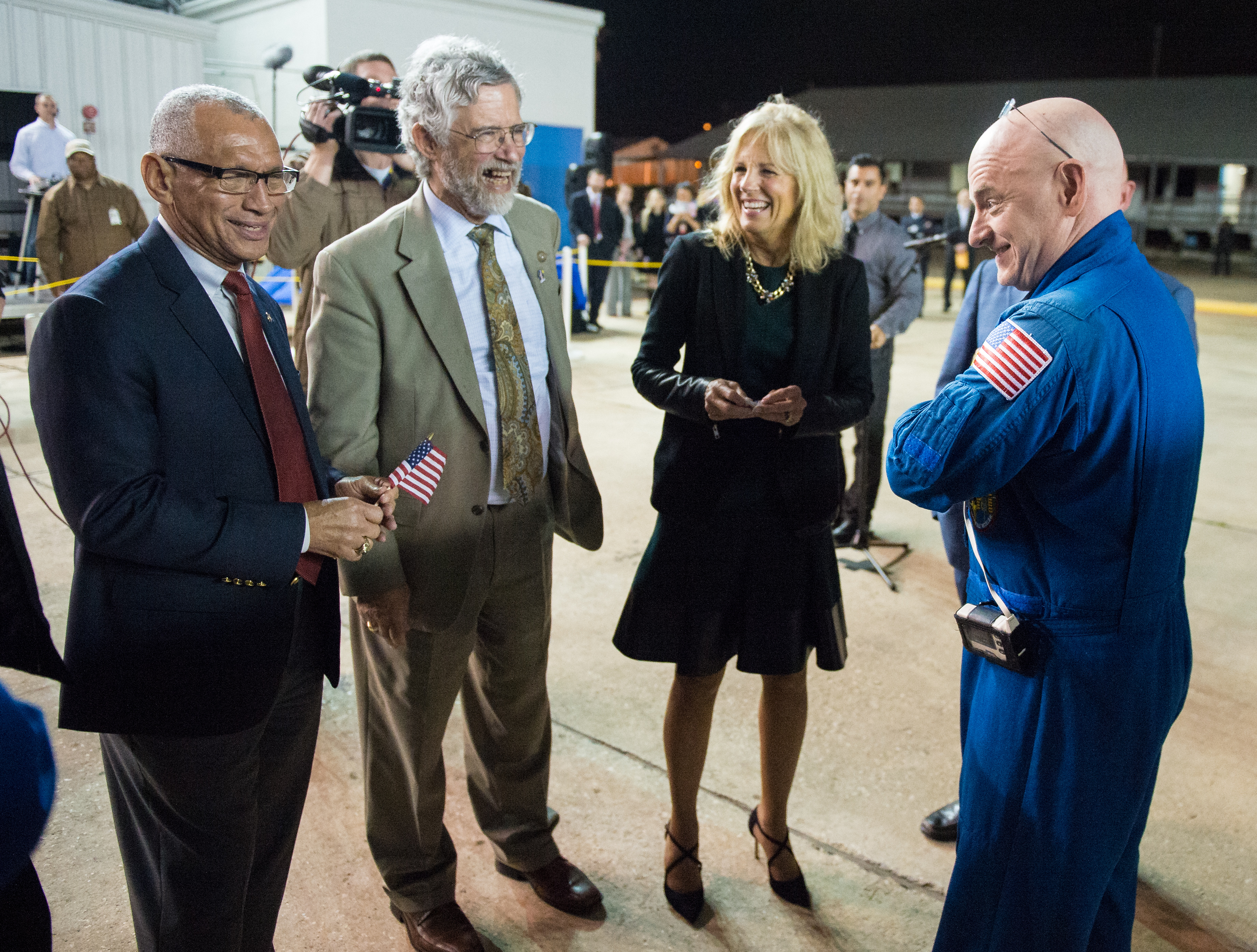 Expedition 46 Commander Scott Kelly of NASA, right, is seen with NASA Administrator Charles Bolden, left, Dr. John Holdren, director of the White House Office of Science and Technology, second from left, and Dr. Jill Biden, wife of Vice President Joe Biden, second from right, after returning to Ellington Field, Thursday, March 3, 2016 in Houston, Texas after his return to Earth. Kelly and Flight Engineers Mikhail Kornienko and Sergey Volkov of Roscosmos landed in their Soyuz TMA-18M capsule in Kazakhstan on March 1 (Eastern time). Kelly and Kornienko completed an International Space Station record year-long mission as members of Expeditions 43, 44, 45, and 46 to collect valuable data on the effect of long duration weightlessness on the human body that will be used to formulate a human mission to Mars. Volkov returned after spending six months on the station.